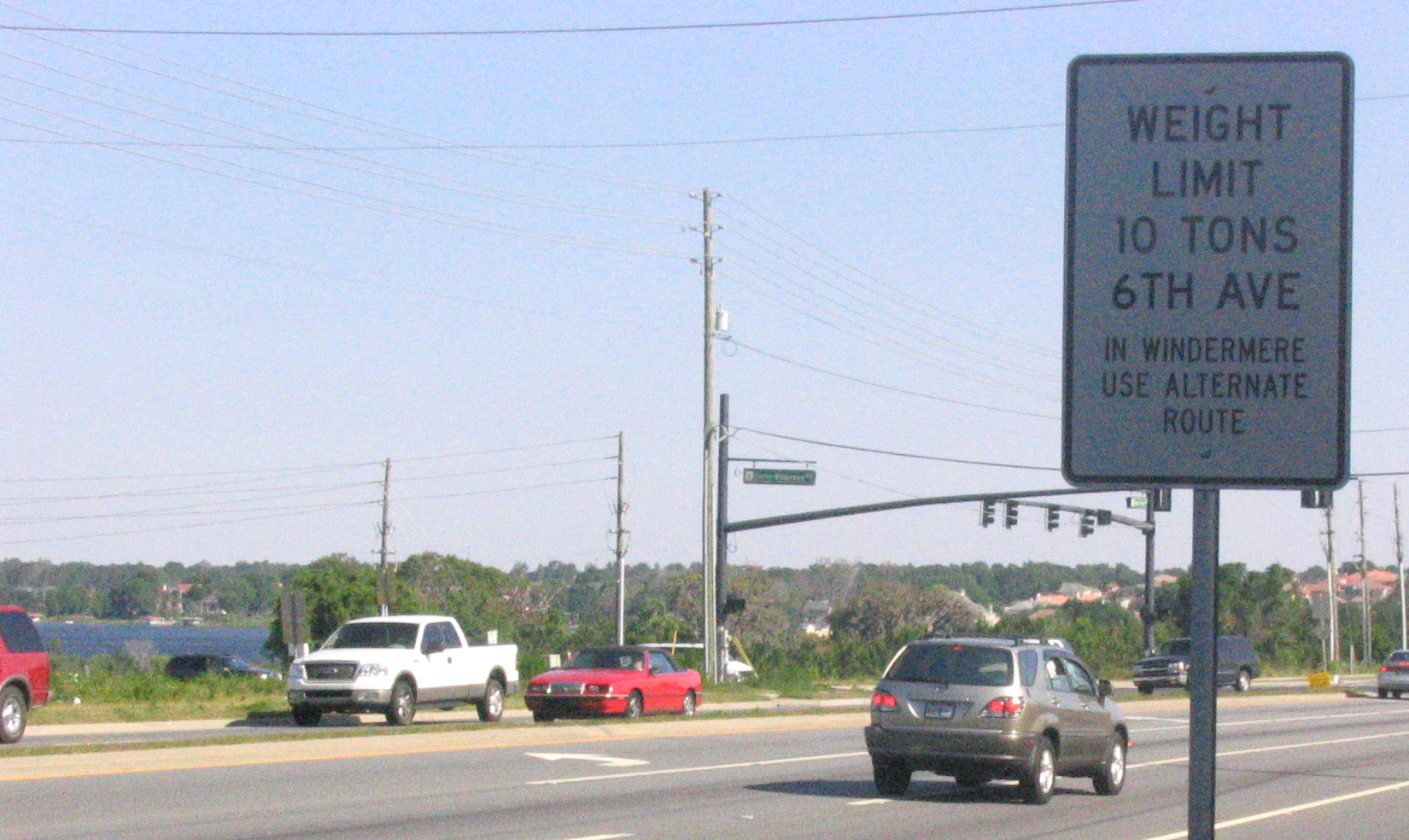 Apopka-Vineland Road north at Conroy-Windermere Road.